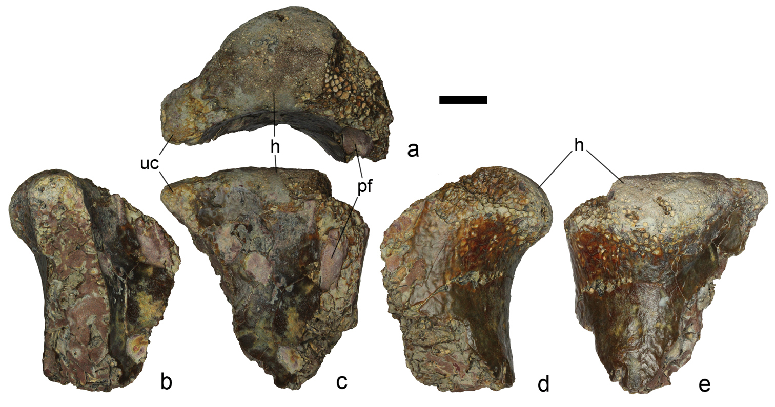 Aralazhdarcho bostobensis, ZIN PH 57/43, a proximal fragment of a left humerus in proximal (a), ventral (b), anterior (c), dorsal (d), and posterior (e) views. This specimen is from the Shakh Shakh II locality in the northeasten Aral Sea region of Kazakhstan; Bostobe Formation, Upper Cretaceous (Santonian – lower Campanian). Abbreviations: h, humeral head; pf, pneumatic foramen; uc, ulnar crest. Scale bar is 10 mm.